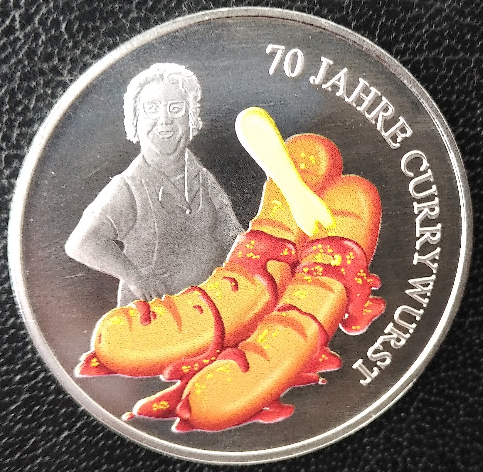 Commemorative medal of the Berlin Mint for Herta Heuwer, the inventor of the Currywurst.